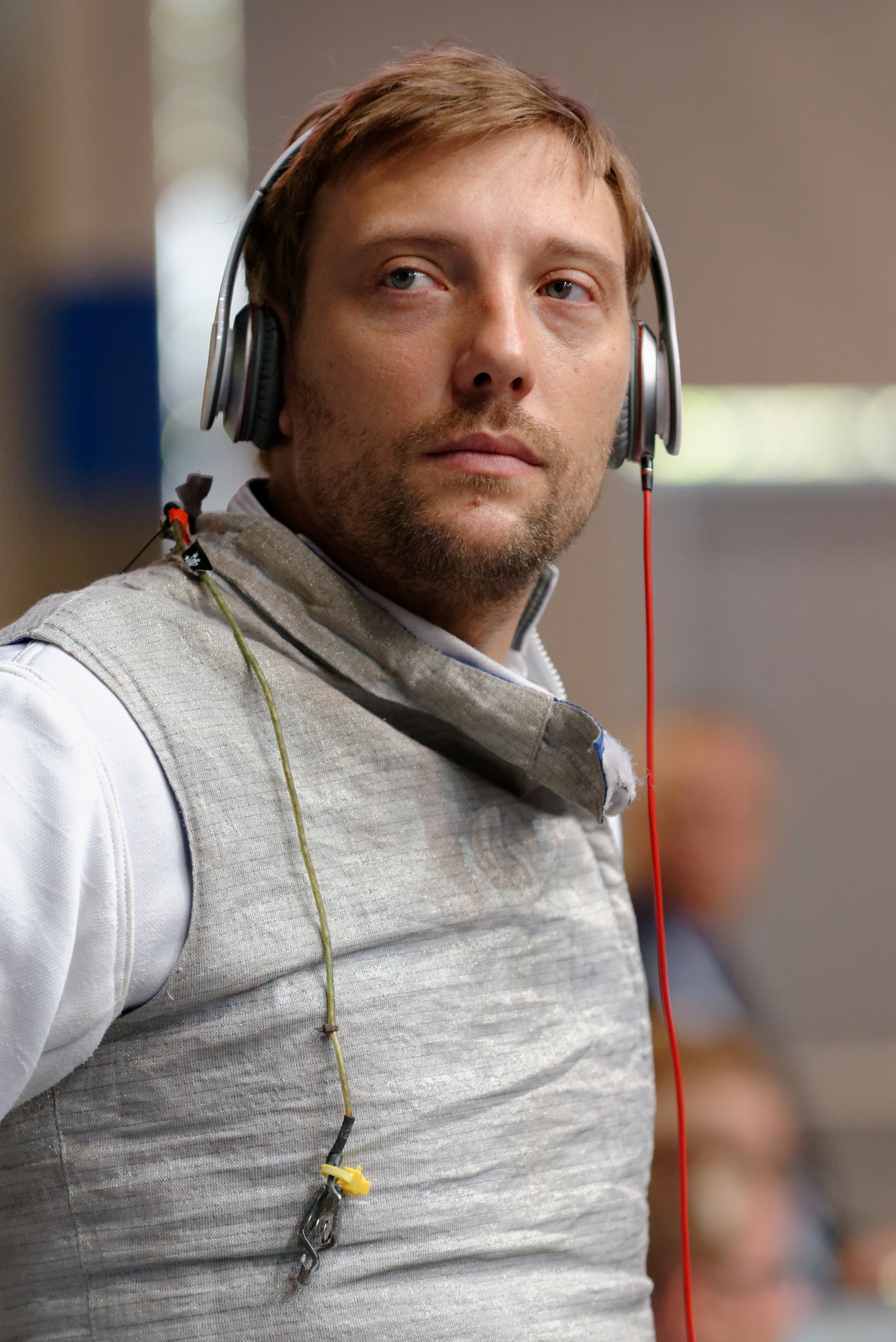 Croatia's Bojan Jovanović at the men's foil event of the 2013 World Fencing Championships 2013 at Syma Hall in Budapest on 9 August 2013.